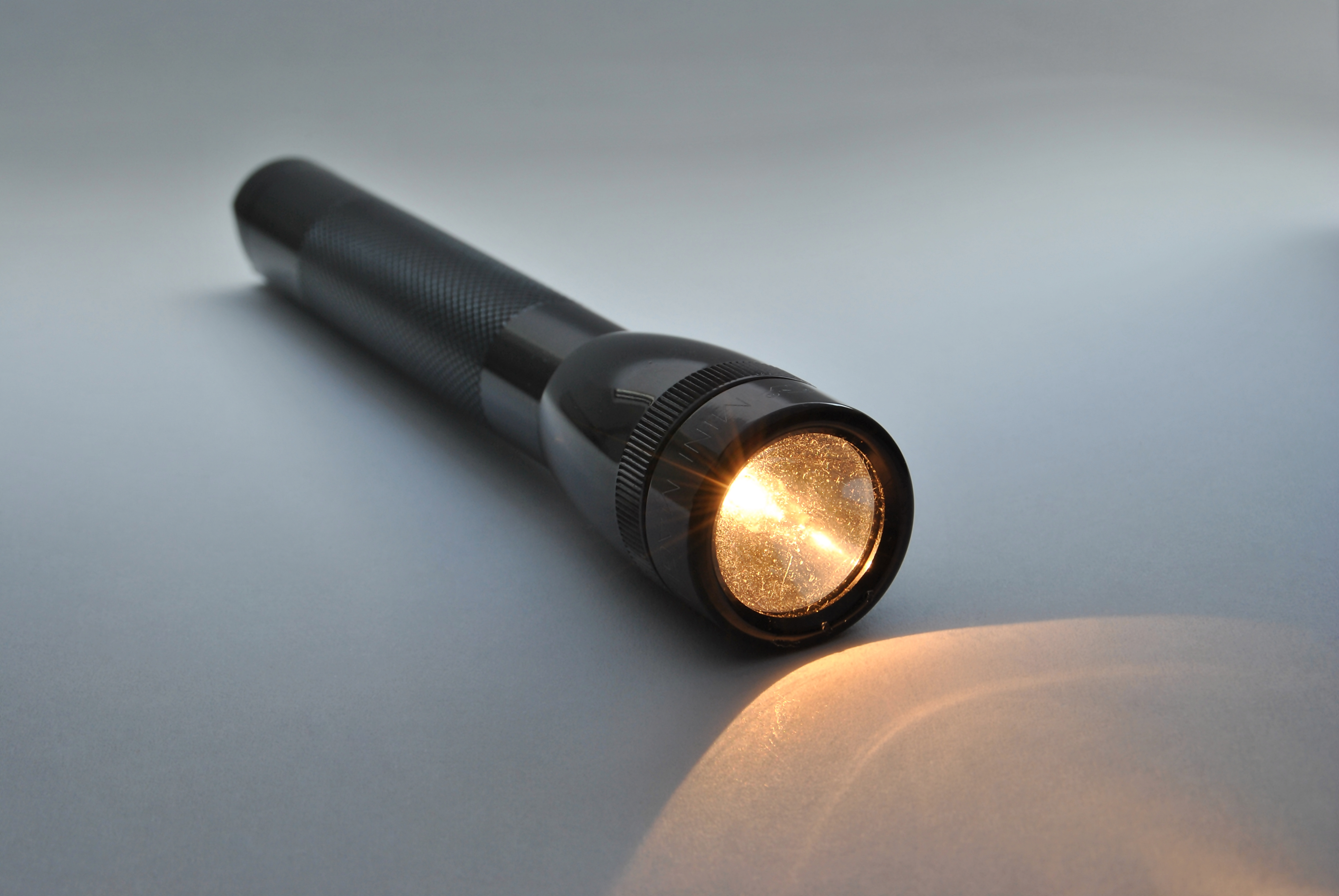 A lit flashlight